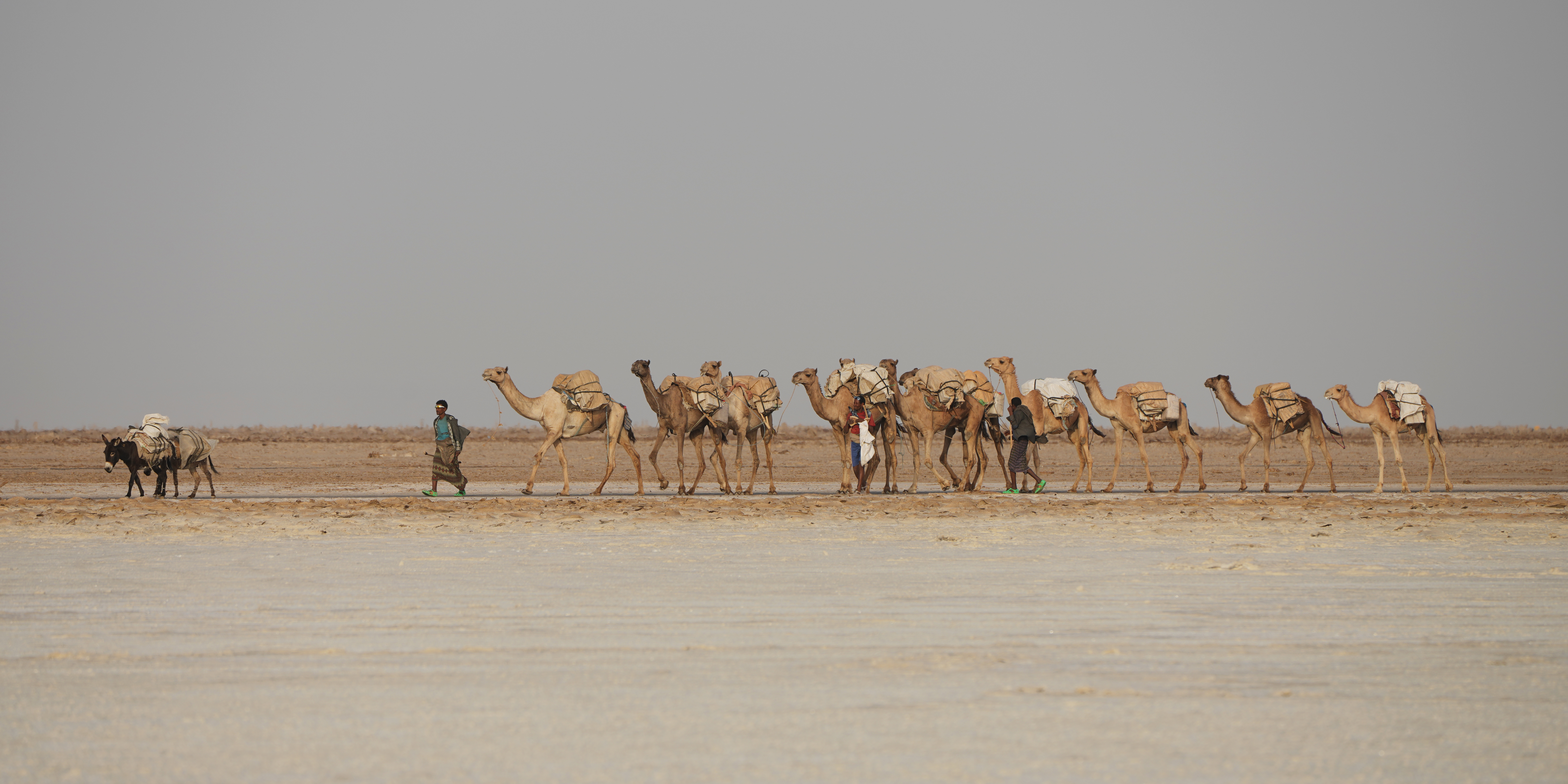 Camel caravan from the salt works – salt desert at Lake Karum, Afar Region, Ethiopia